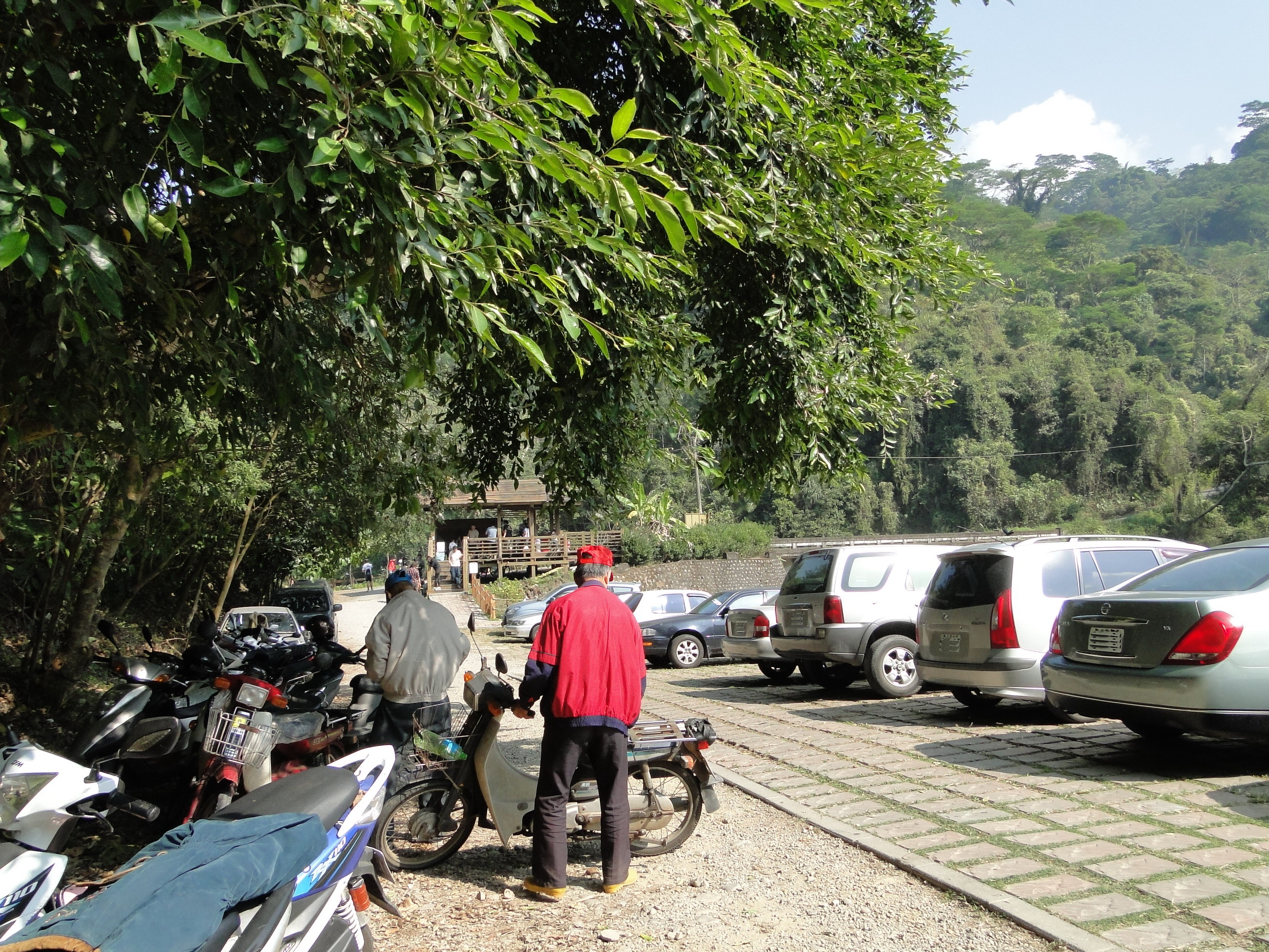 QingTongLin Eco-Park Parking lot.